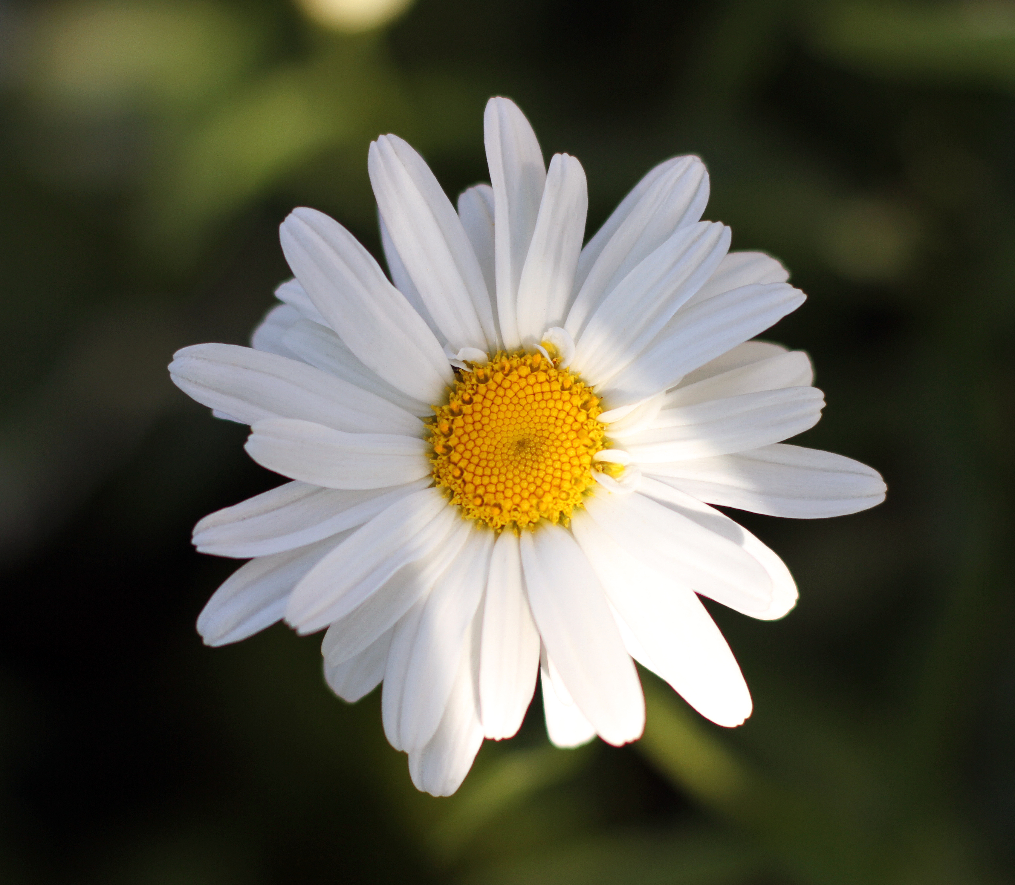 Close up of the leucanthemum vulgare